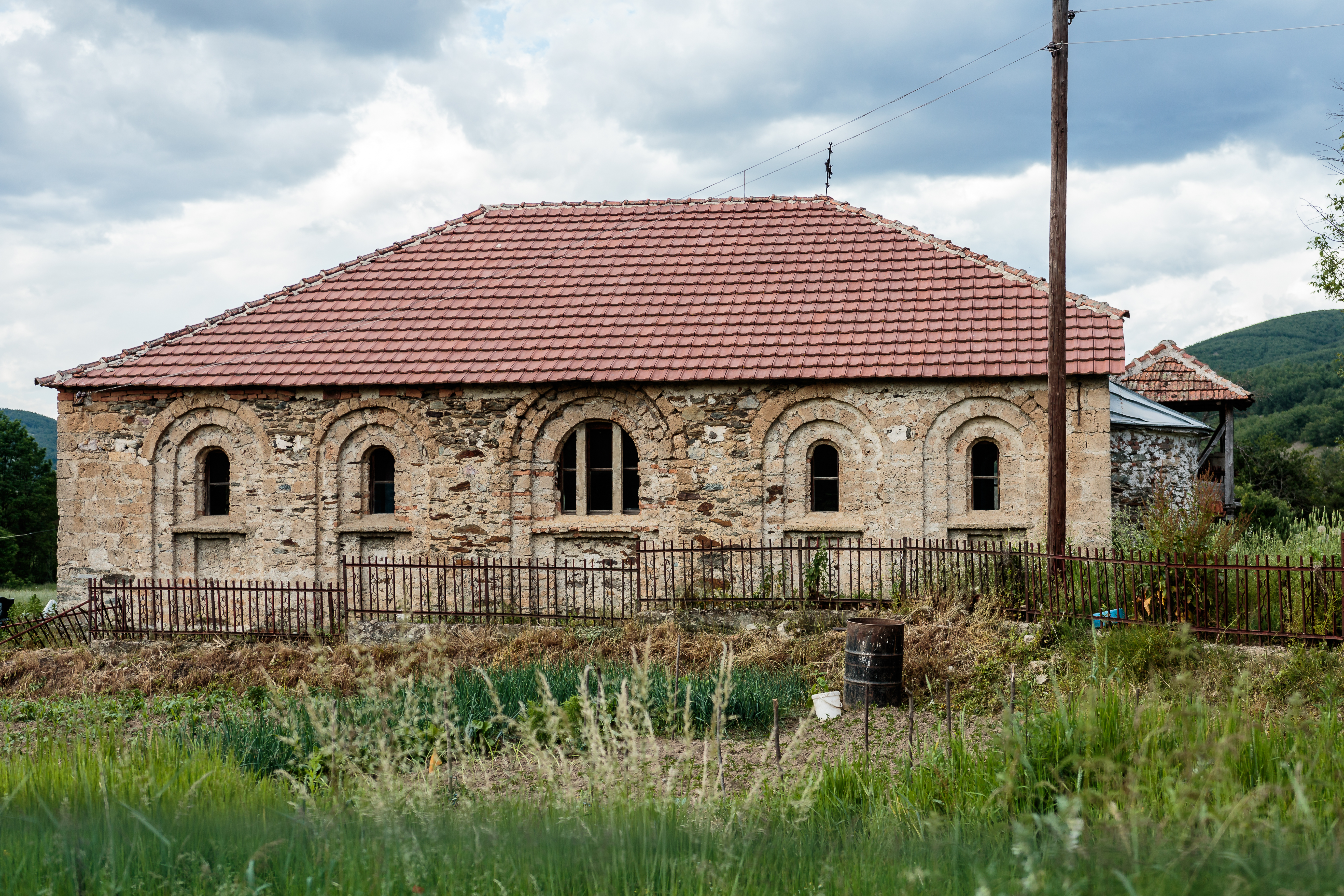 View of the Church of the Ascension of Christ in the village Mrenoga